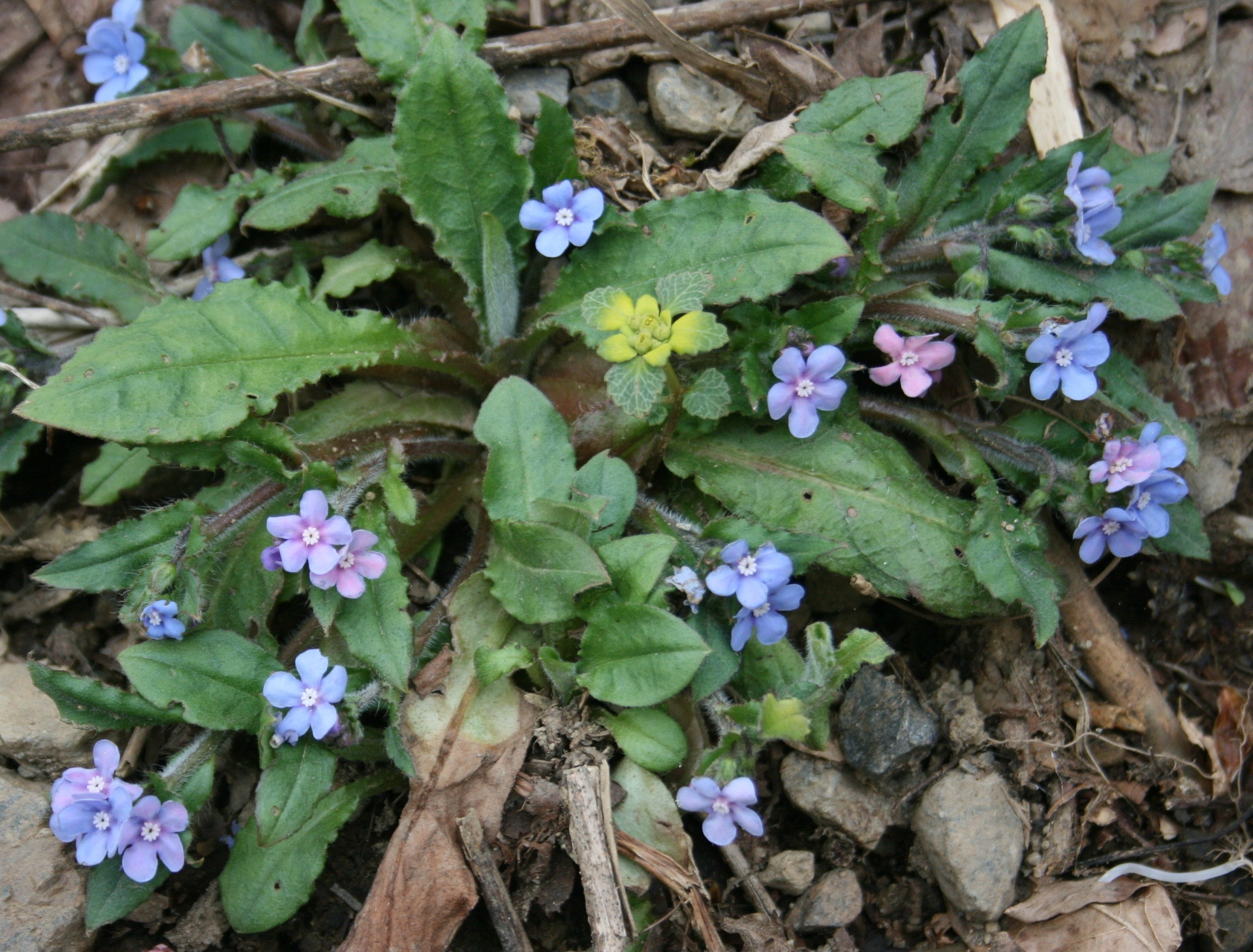 Omphalodes japonica in Mount Funabuse, Motosu, Gifu prefecture, Japan.